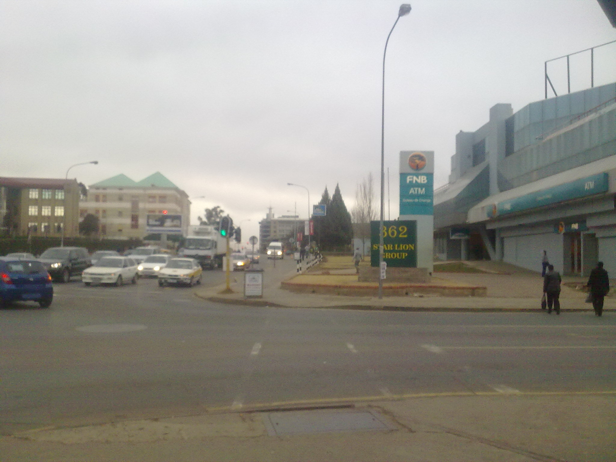 Late winter morning